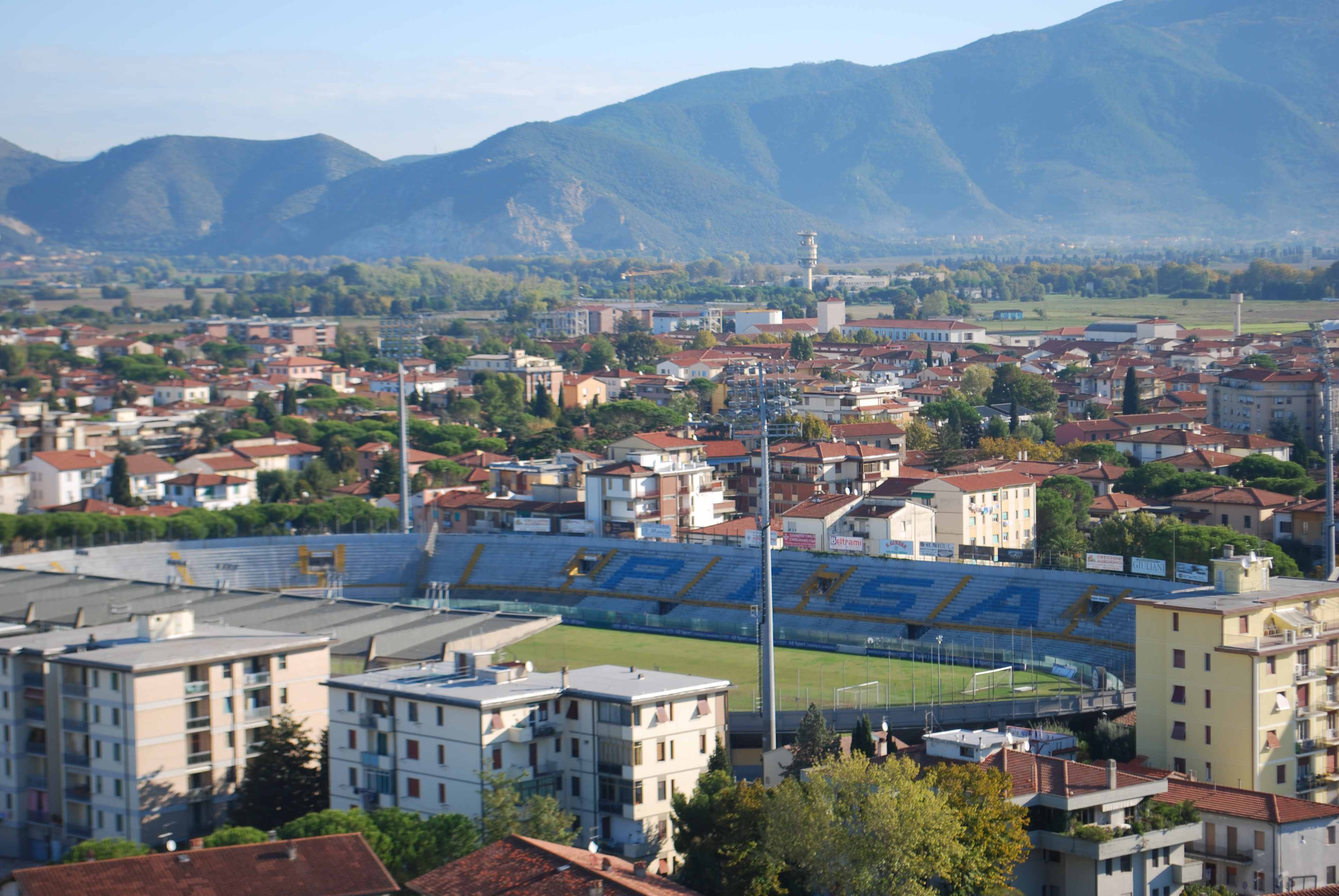 Arena Garibaldi – Stadio Romeo Anconetani Home of A.C. Pisa FC